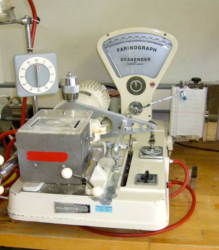 Older mechanical Farinograph – a laboratory equipment to measure the water absorption of flours an determine the rheological properties of the dough